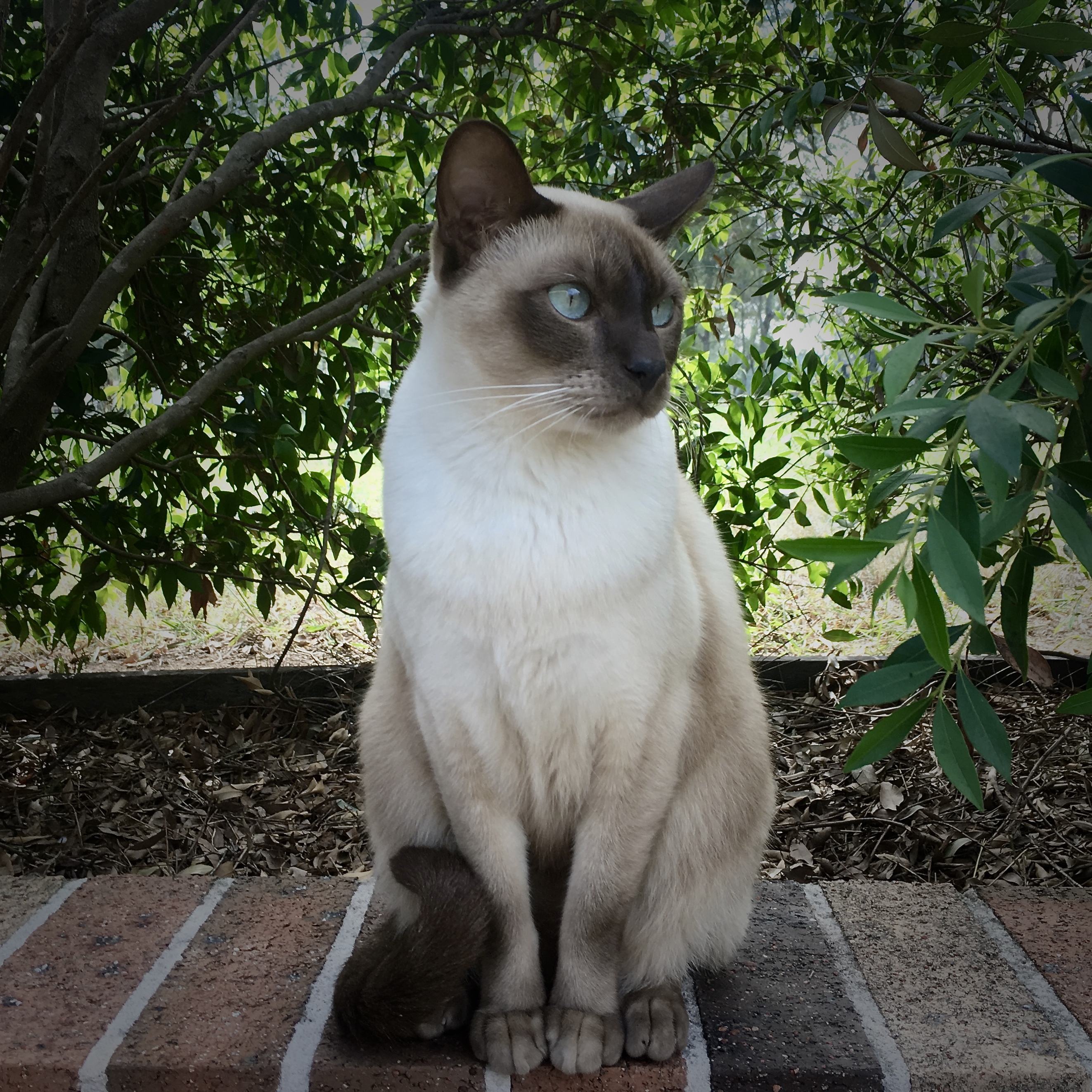 Tonkinese Cat